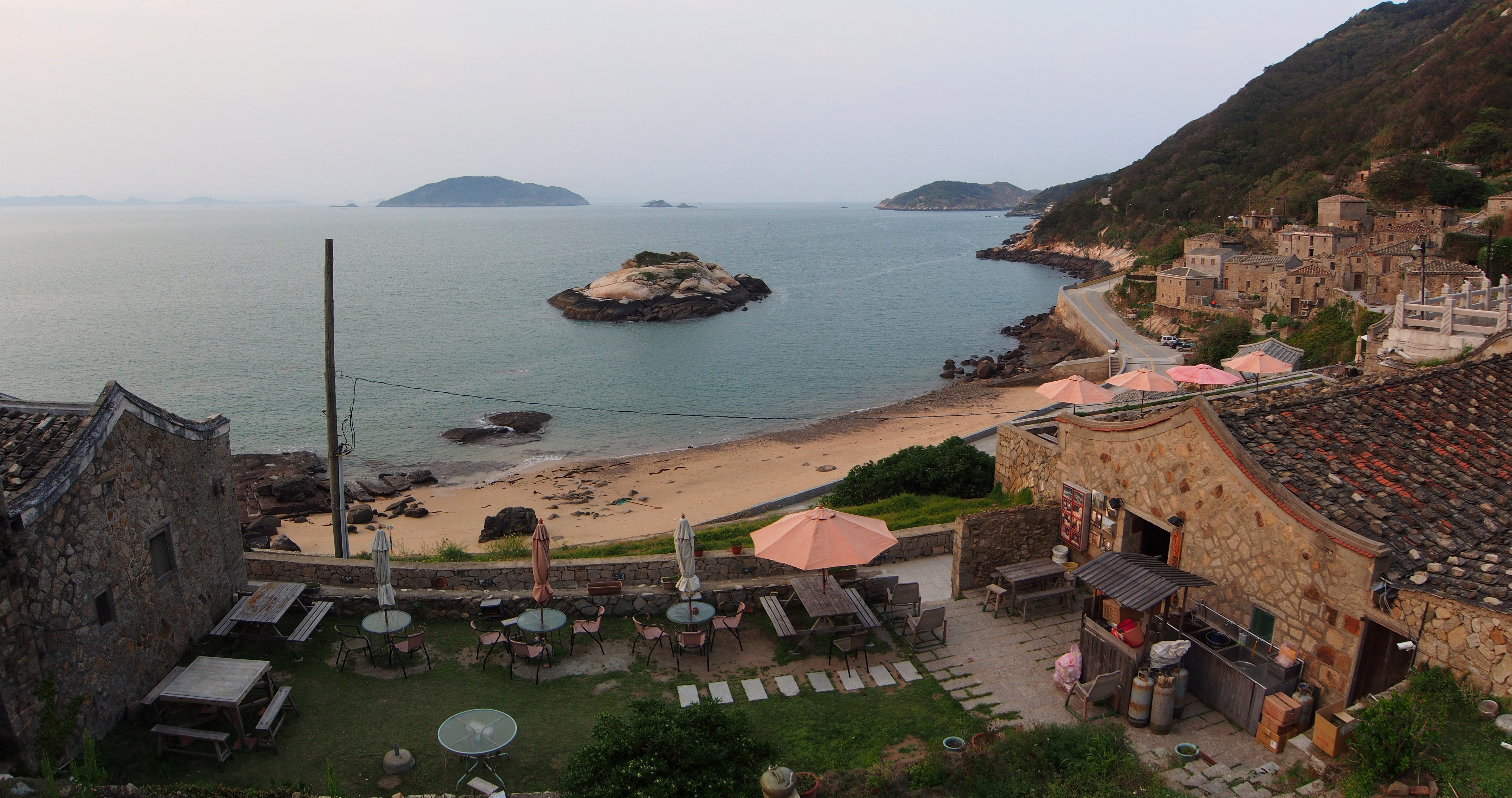 Qinbi Beach and Turtle Island - 2014.04 (Lianjiang County, Fuzhou, Fujian, China (PRC) can be seen on the far left)